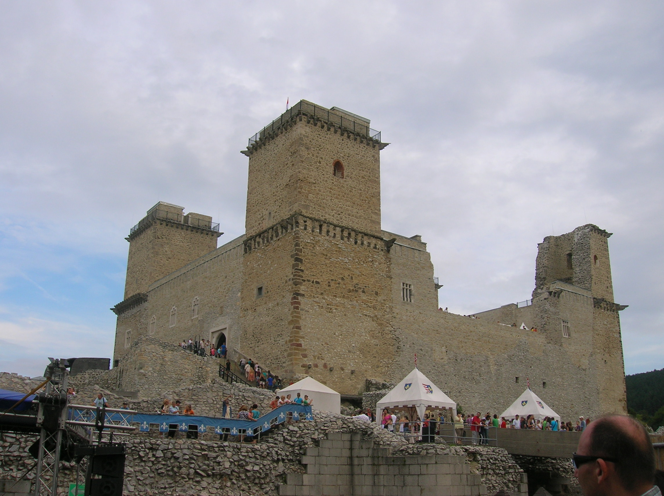 The newly reconstructed Castle of Diósgyőr on the day it was opened to the public